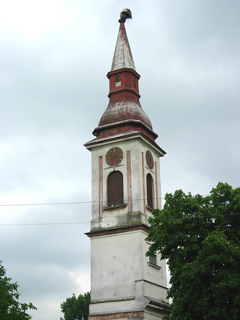 The Saint John the Baptizer Catholic Church in Mladenovo.